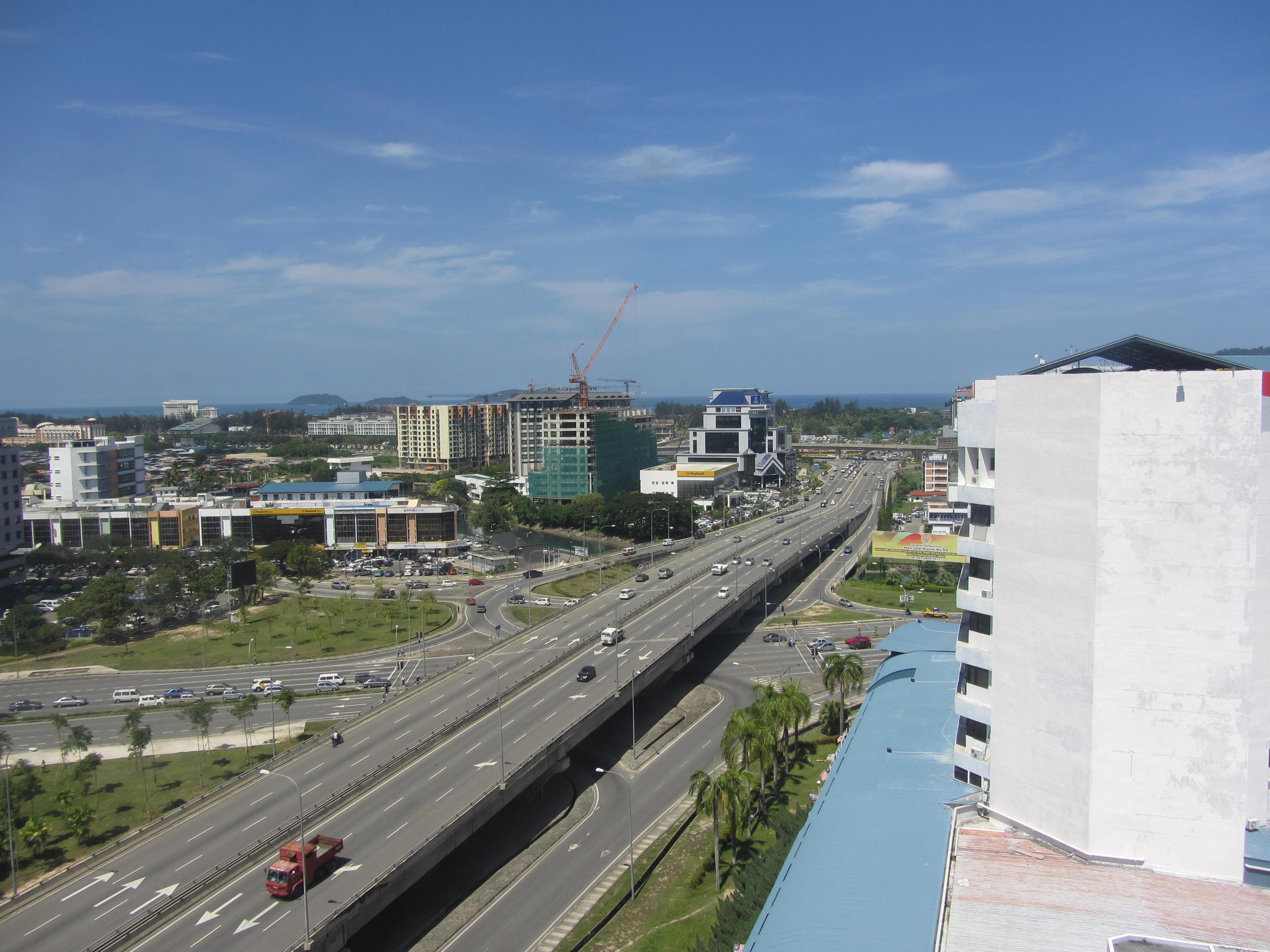 Since it was a really beautiful sunny morning, I then headed to a stairwell window on the 12th floor of Karamunsing Complex to photograph the view of the nearby flyover. The view was much more nicer compared to when I came here during a cloudy day. Traffic on the flyover wasn't too busy. KK Suites is seen coming up behind Maybank.